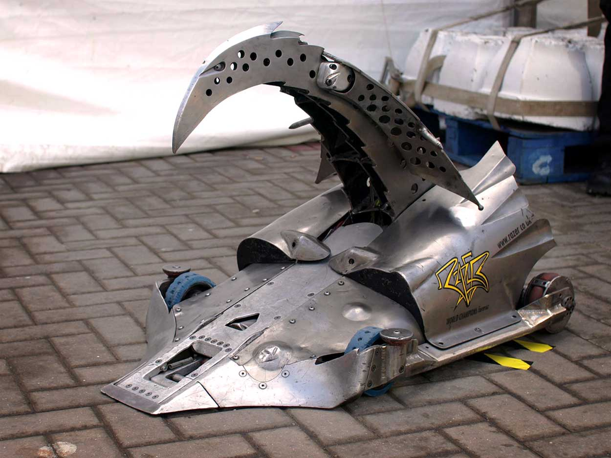 A side-on photograph of the Robot Wars double world champion Razer.